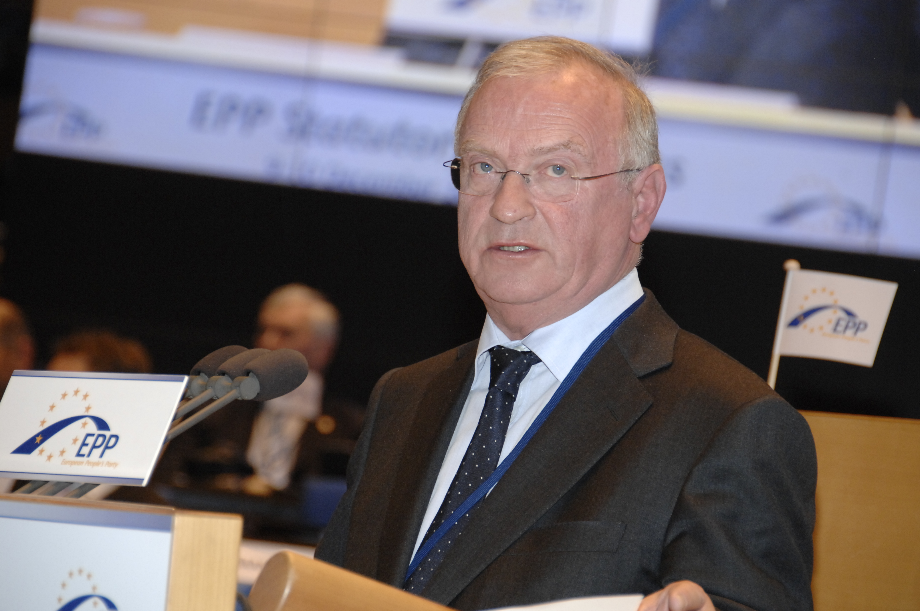 EPP Congress Bonn